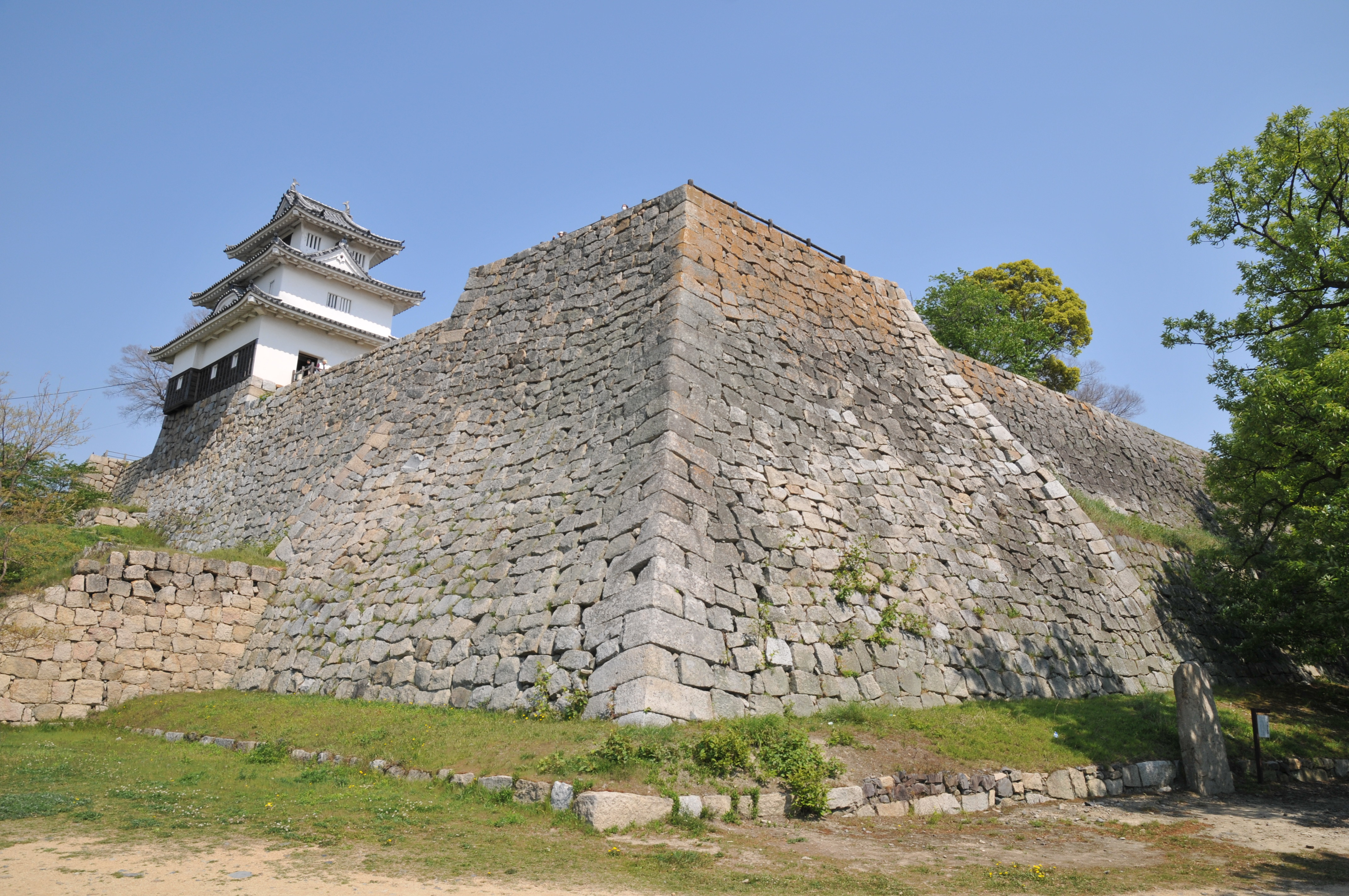 Stone base of former Hime-yagura and the Keep (far left), Marugame Castle(The keep is designated as Japan's national important cultural property), Marugame Castle